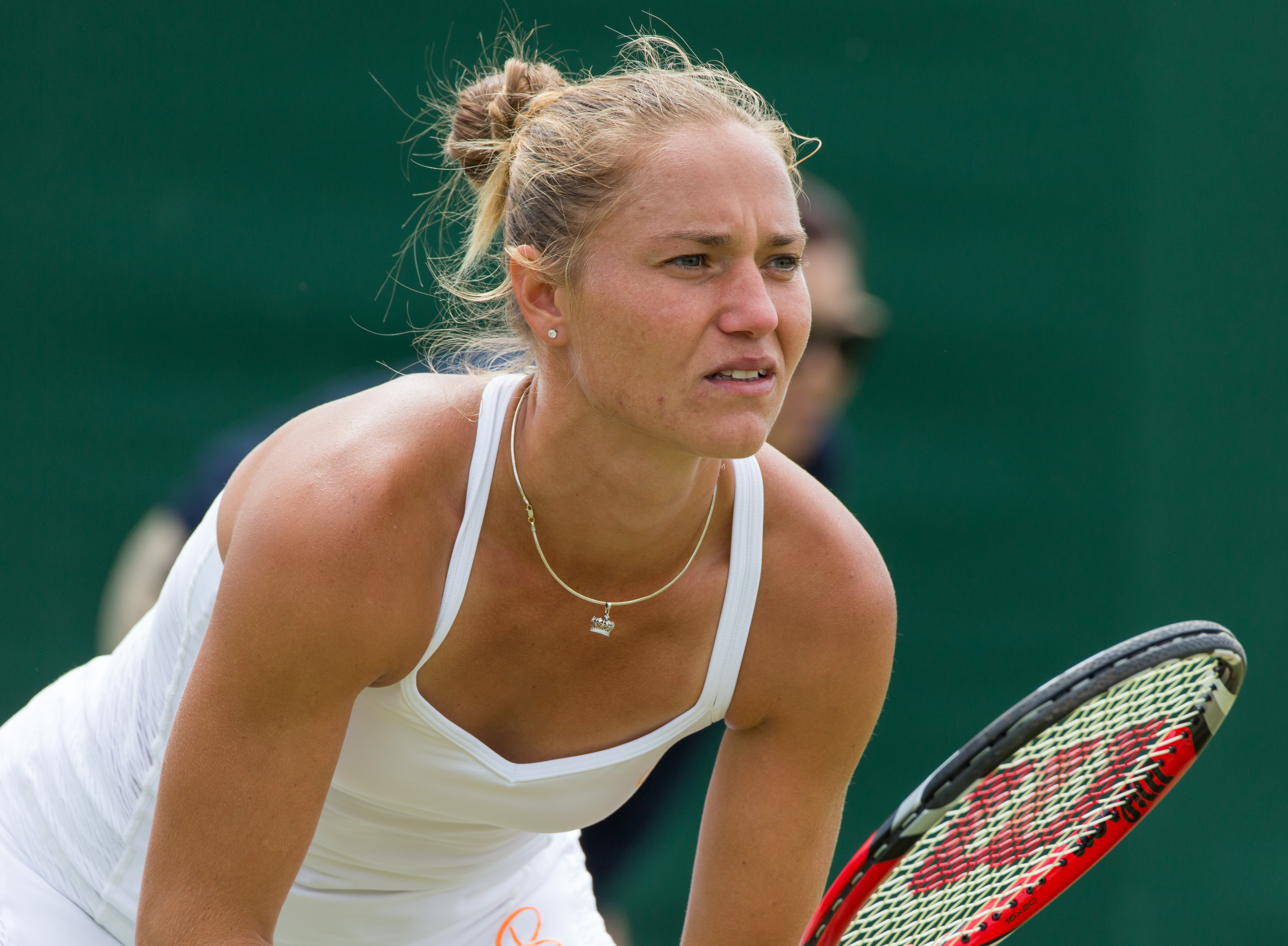 Kateryna Bondarenko competing in the first round of the 2015 Wimbledon Qualifying Tournament at the Bank of England Sports Grounds in Roehampton, England. The winners of three rounds of competition qualify for the main draw of Wimbledon the following week.